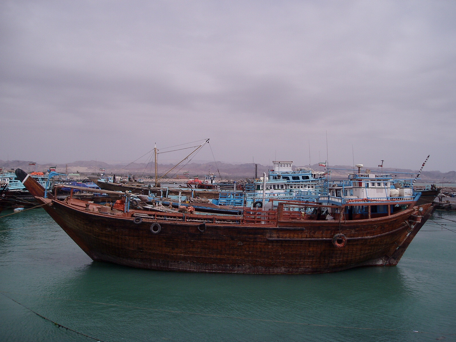 A boum in Bandar Kong, a port town of Iran by the Persian Gulf. Boums were sailships up till 1960s. After that most were converted to diesel power like this one.